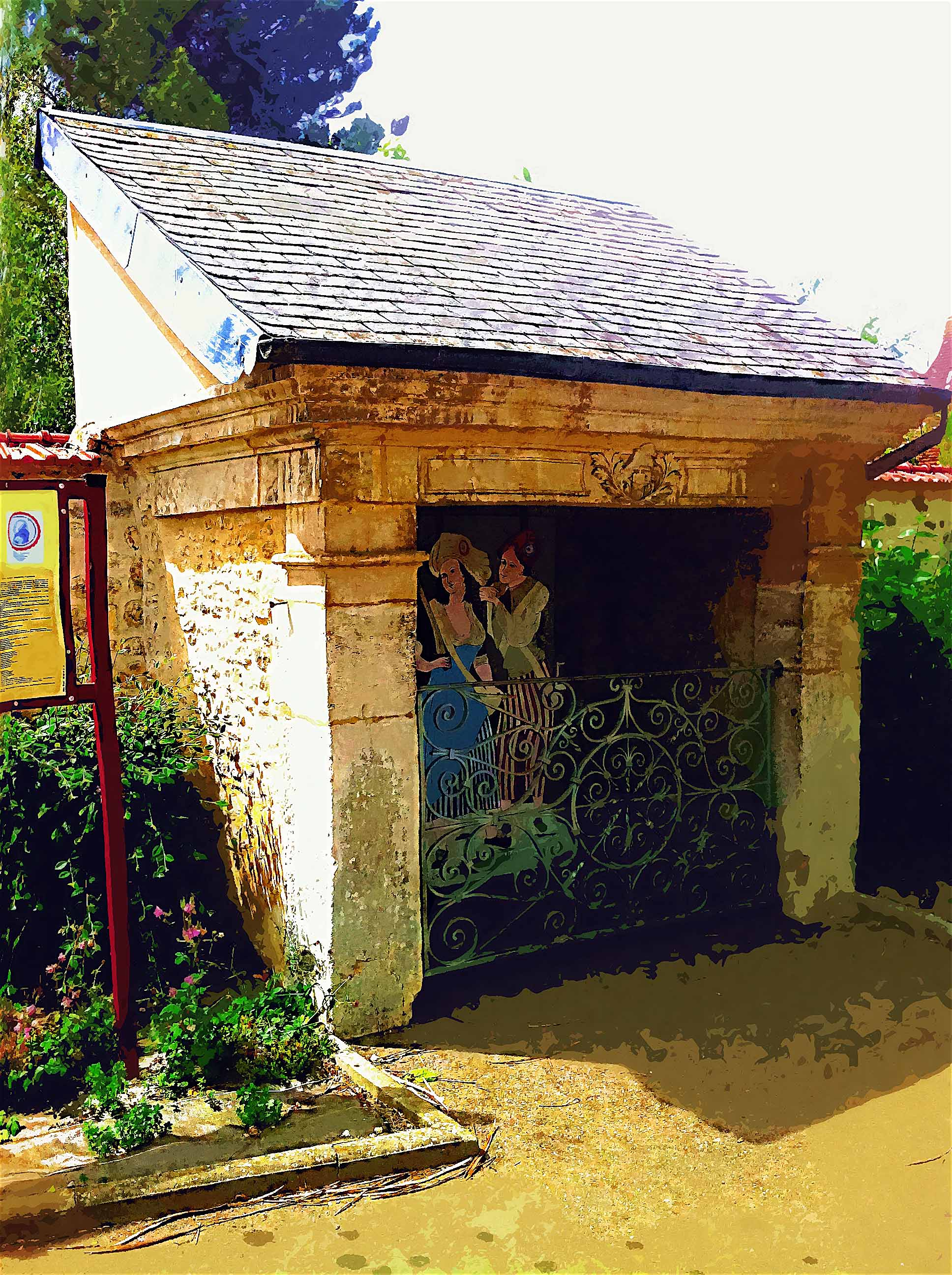 rare Revolution alter to the invented religion of France